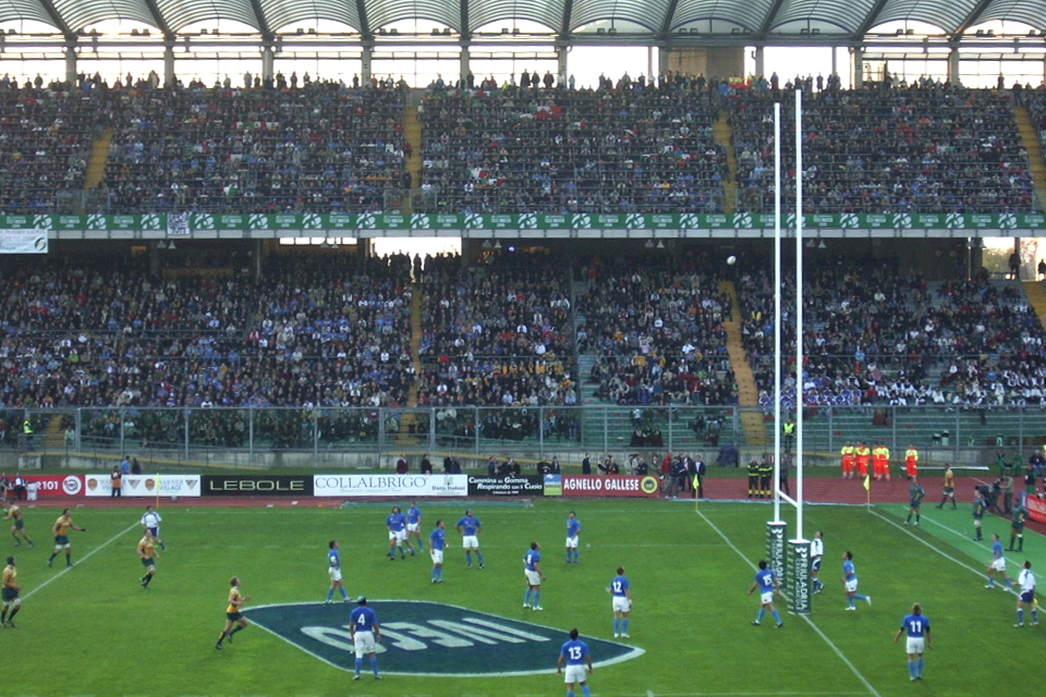 A penalty kick by Matt Giteau during the rugby union test match Italy vs. Australia played at Stadio Euganeo, Padua, Italy